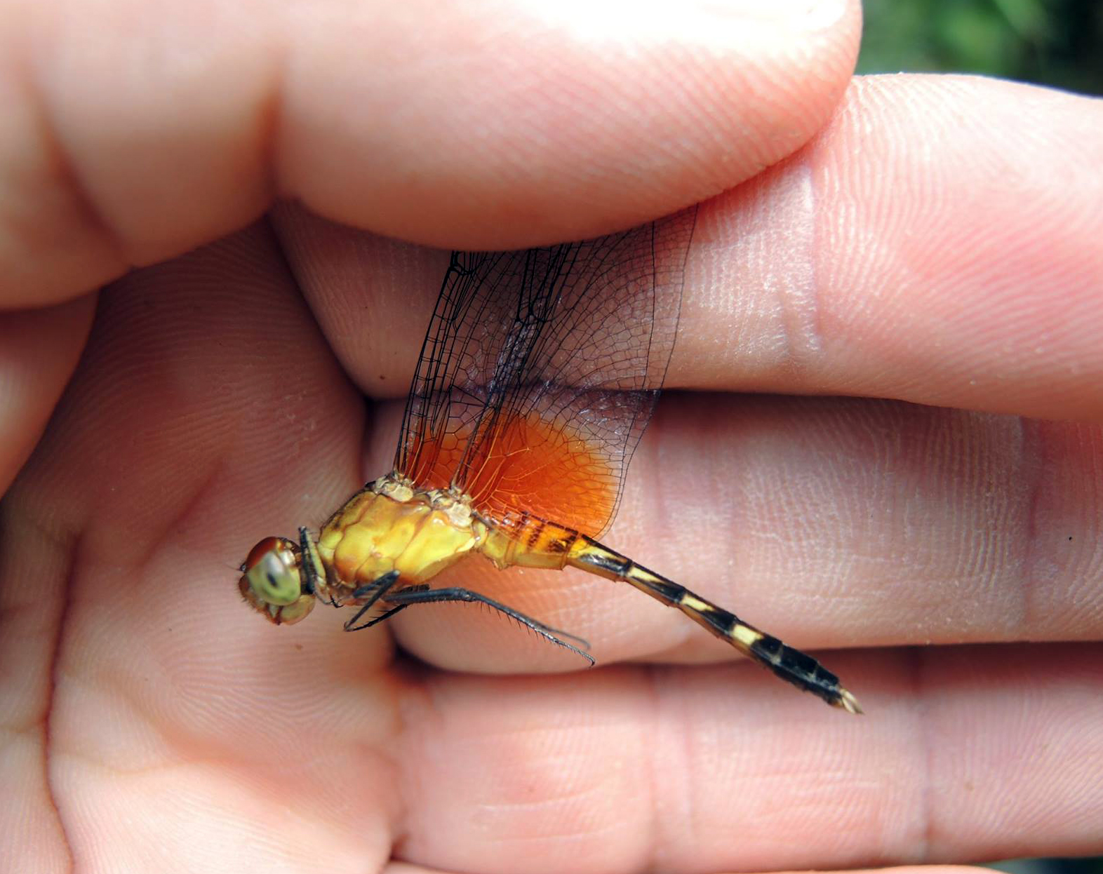 Eyrthrodiplax fervida male immature